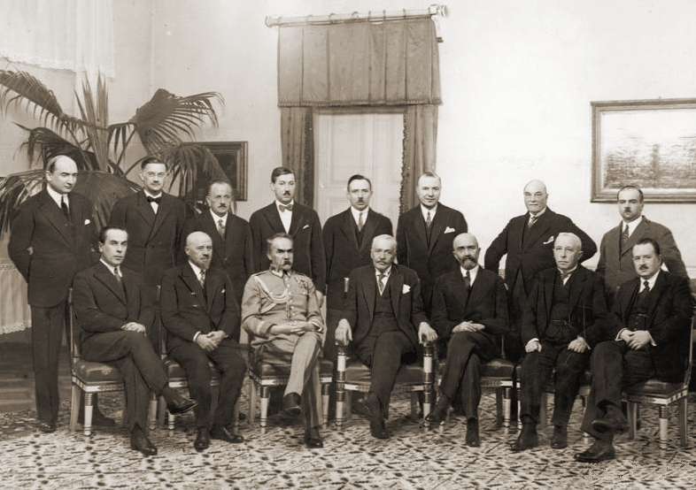 Polish Government of Prime Minister Walery Sławek 1930